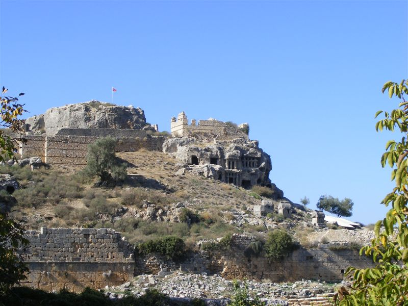 A recent image of Tlos, picture taken November 2008